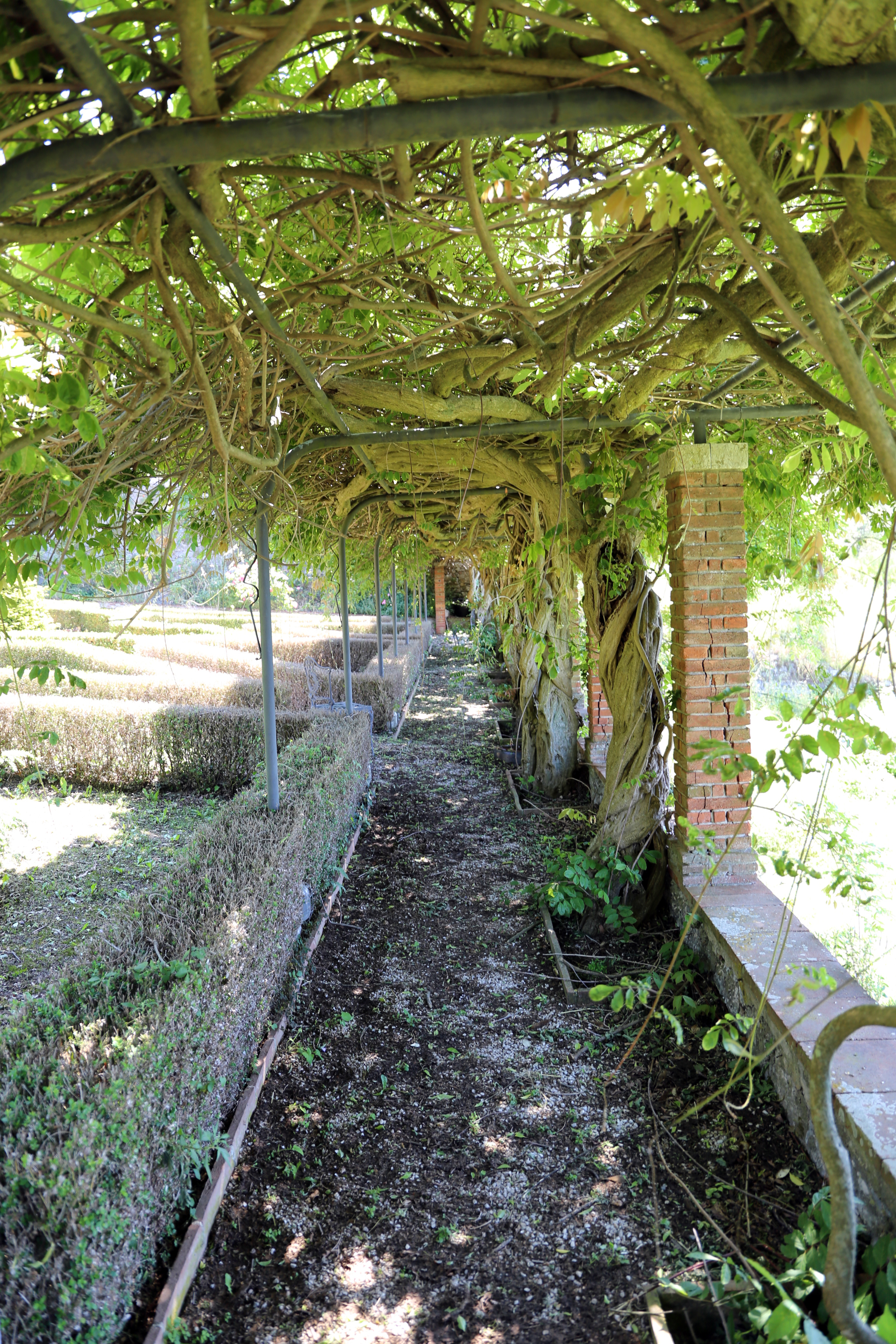 Villa Paolina (Compignano)